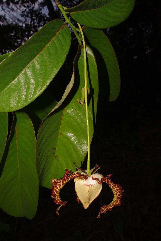 Monodora myristica (Annonaceae) in the Dja Faunal Reserve. Photo: TLP Couvreur.